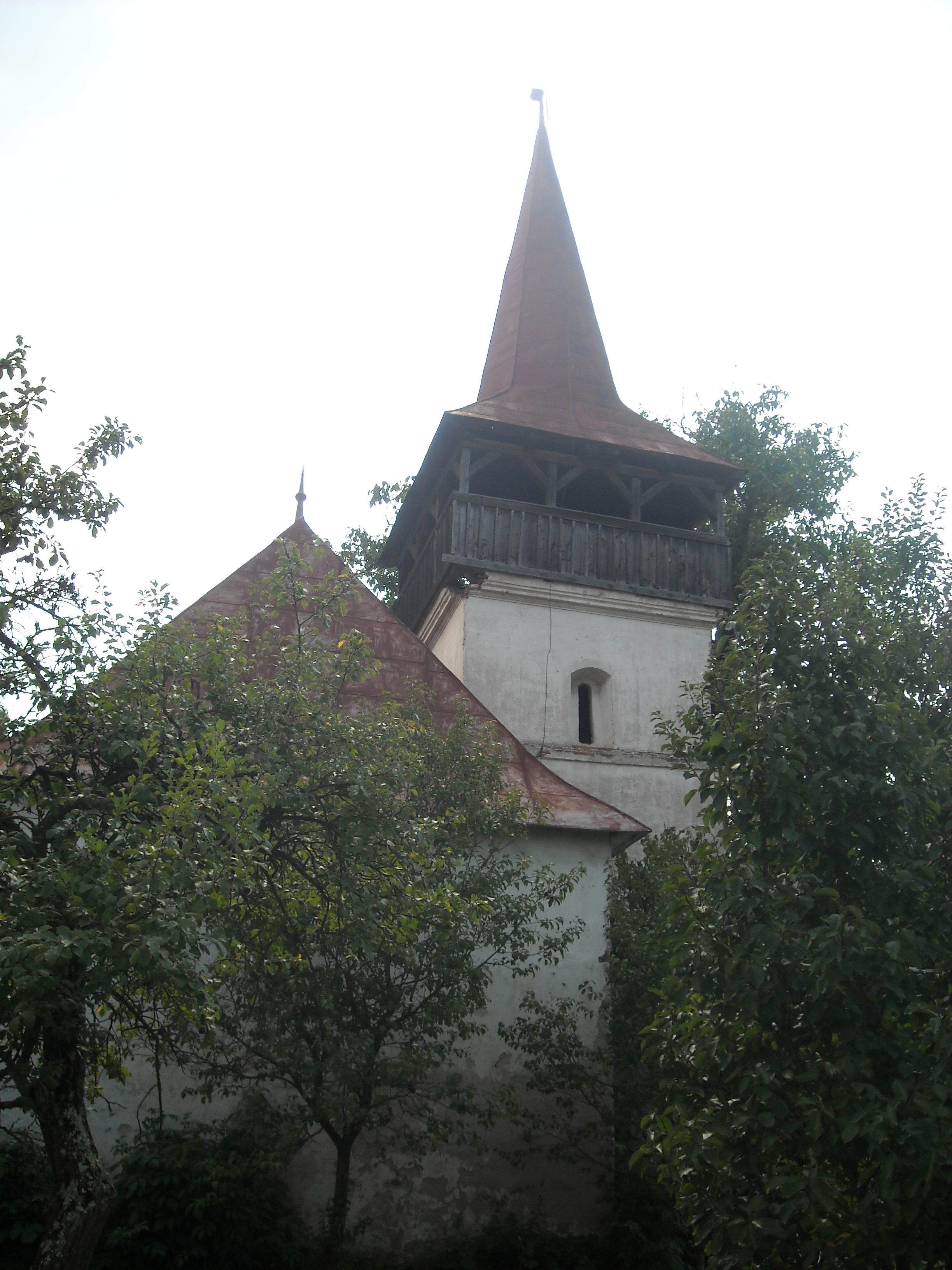 Reformed (Calvinist) church in Peșteana/Nagypestény, Romania